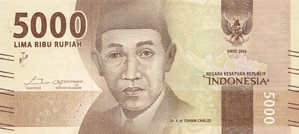 5000 rupiah bill, 2016 series, obverse